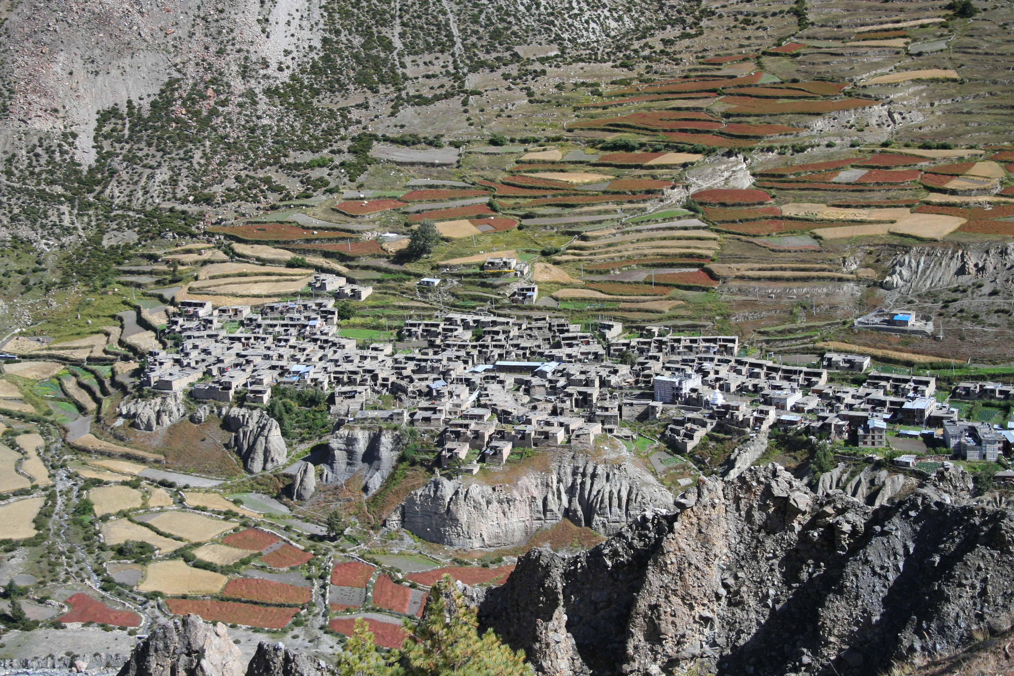 The village of Manang in Nepal.